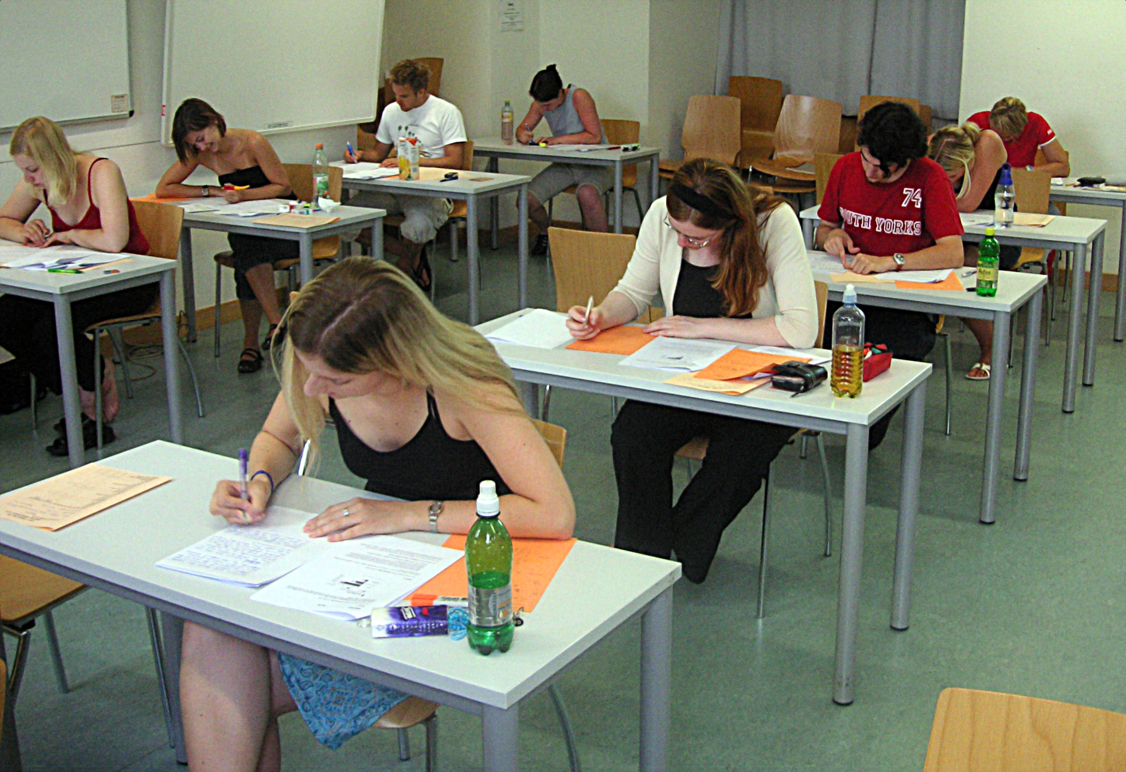 Students taking a test at the University of Vienna at the end of the summer term 2005 (Saturday, June 25, 2005).